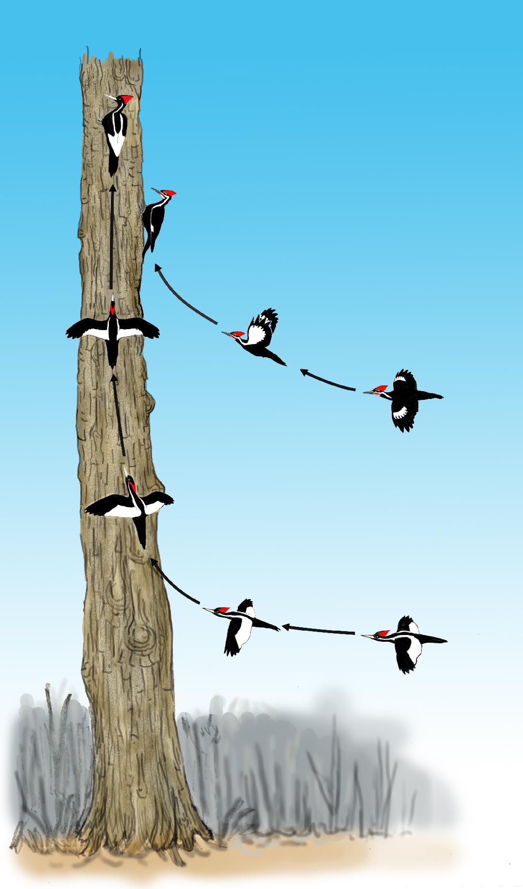 Illustration by Michael DiGiorgio of upward swooping landings by large woodpeckers. A Pileated Woodpecker swoops upward a short distance and lands on a surface that faces the direction of approach. Video footage that was obtained during an encounter with a pair of birds that were identified in the field as Ivory-billed Woodpeckers shows upward swooping landings with long vertical ascents that allow time for maneuvering. Such landings are consistent with an account by Don Eckleberry of a landing with "one magnificent upward swoop."